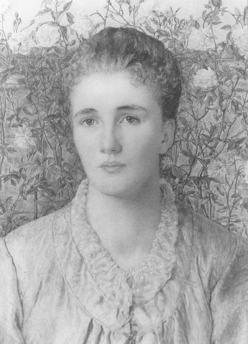 Louise Creighton, aged 28.